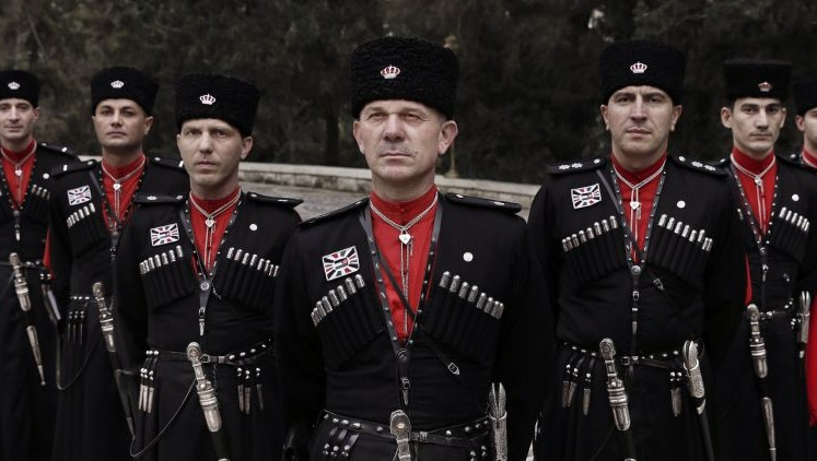 This is a picture taken by photographer Nariman El-Mofty, the picture depicts the Circassian guard of Jordan